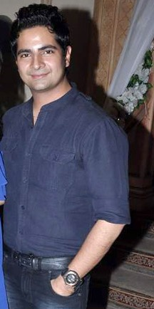 Karan Mehra at Yeh Rishta Kya Kehlata Hai's 1000 episodes party.